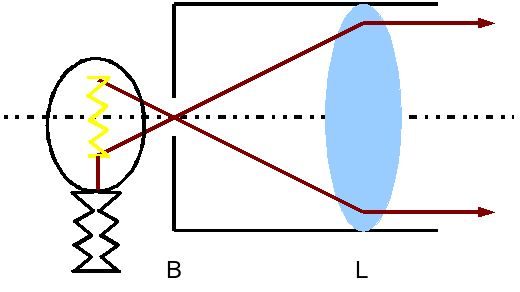 Sketch of an Collimator as used for Visible Light. Light (dark red arrows) emitted by the bulb on the left travels throw an Aperture (B) and is formed parallel to the optical axis (dotted line) by positive lens (L).